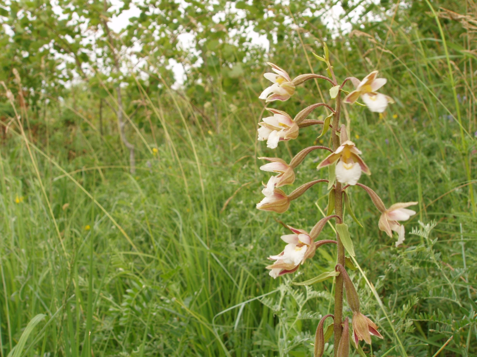 This is a picture taken about Marsh Helleborine (Epipactis palustris). Picture made in Estonia, Osmussaar.